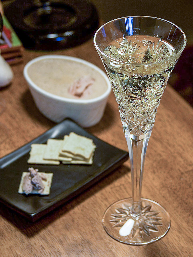 Champagne and pate on Thanksgiving. Date: 2004-11-25 Camera: Canon 20D, Lens: Canon 28-135mm IS License: This image is public domain. You may use this image for any purpose, including commercial.